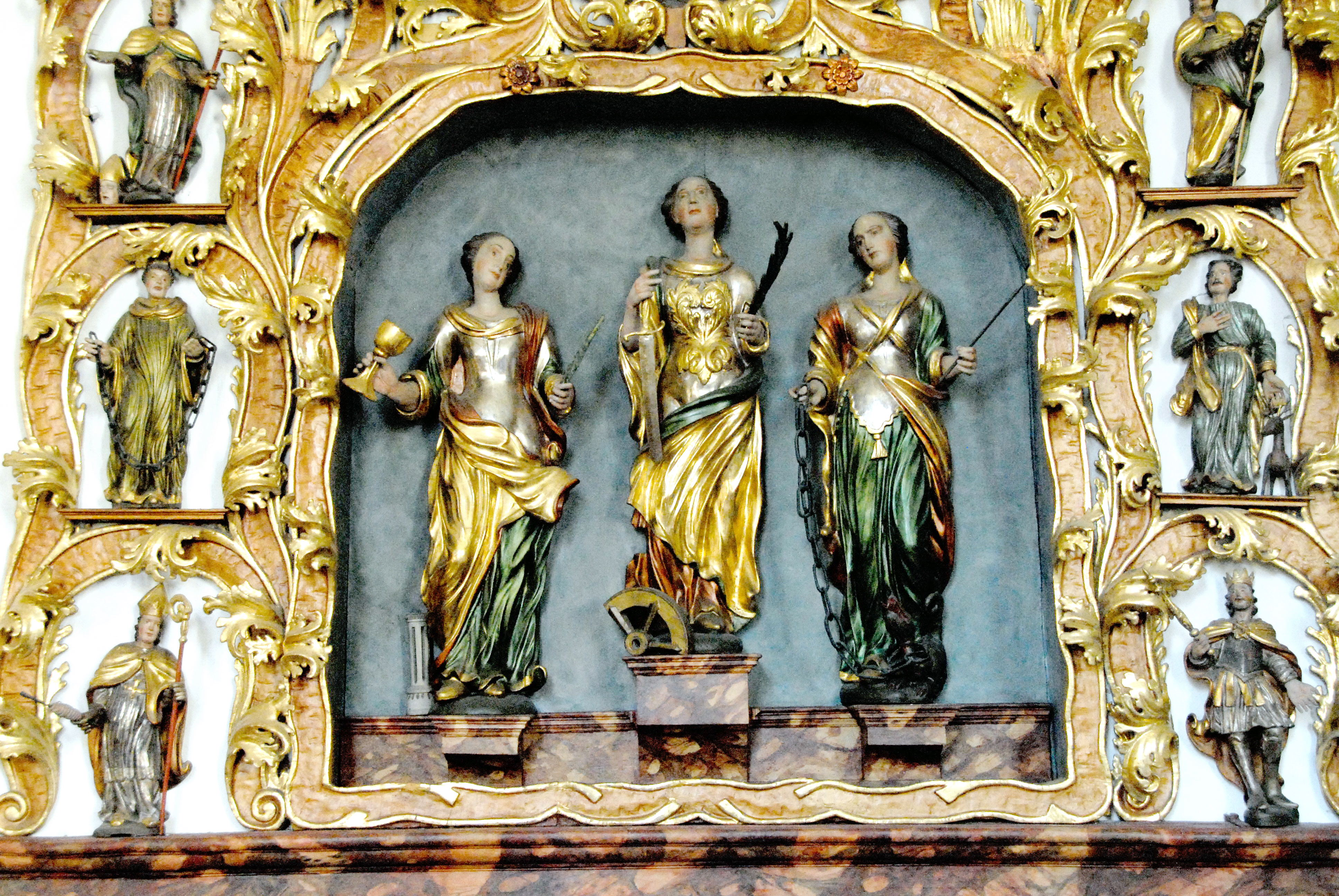 Carved figurines of Saints Barbara, Katharina and Margaretha in the parish church of Klein Sankt Paul, district Saint Veit on the Glan, Carinthia, Austria